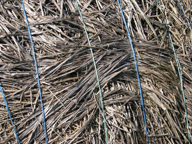 "The repetitiveness of farming." – Round hay bale bound with blue baling twine. Photo taken somewhere in Canada.